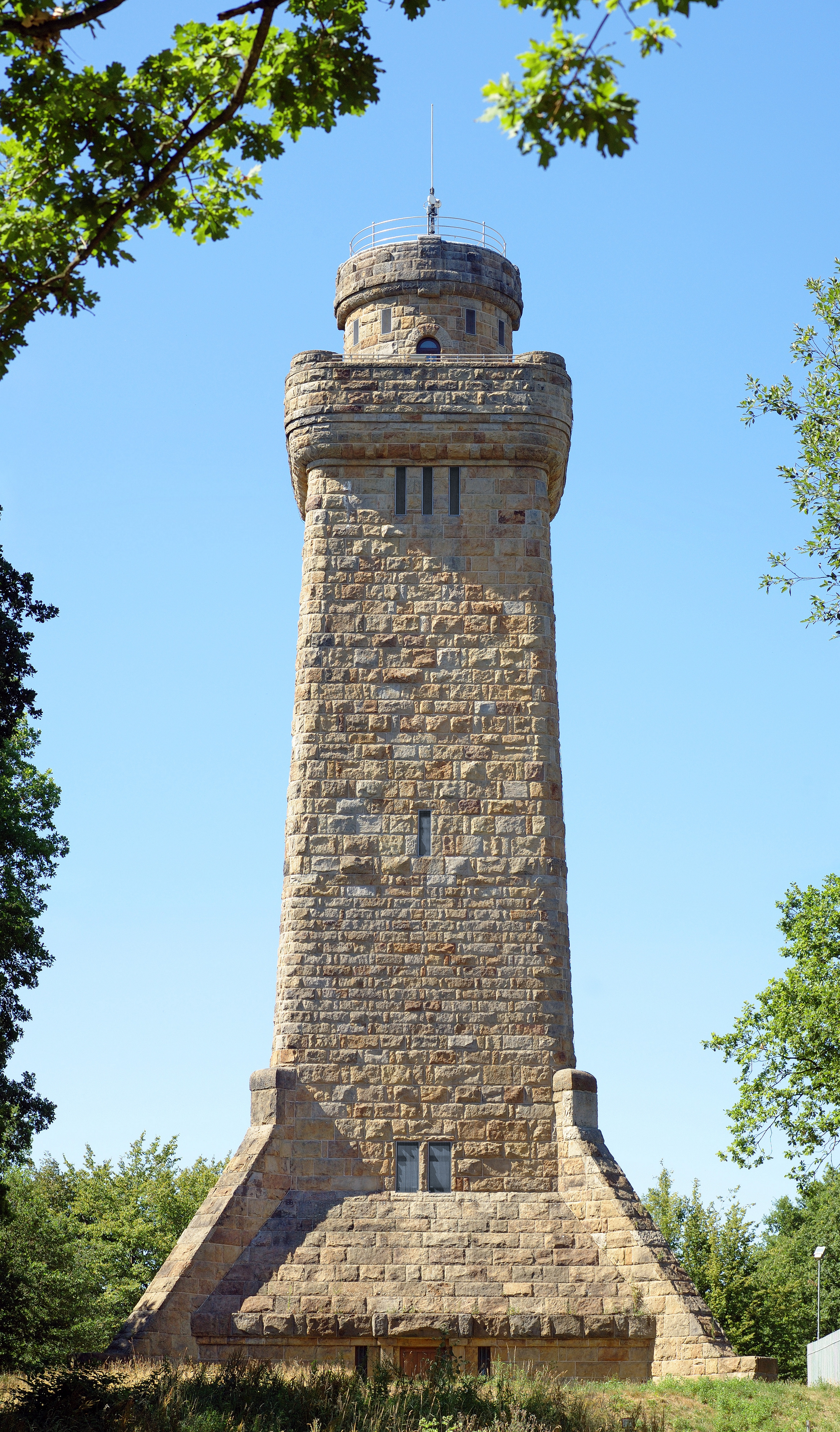 This image shows the Bismarck tower in Glauchau (Germany). It has been stitched together using three images.